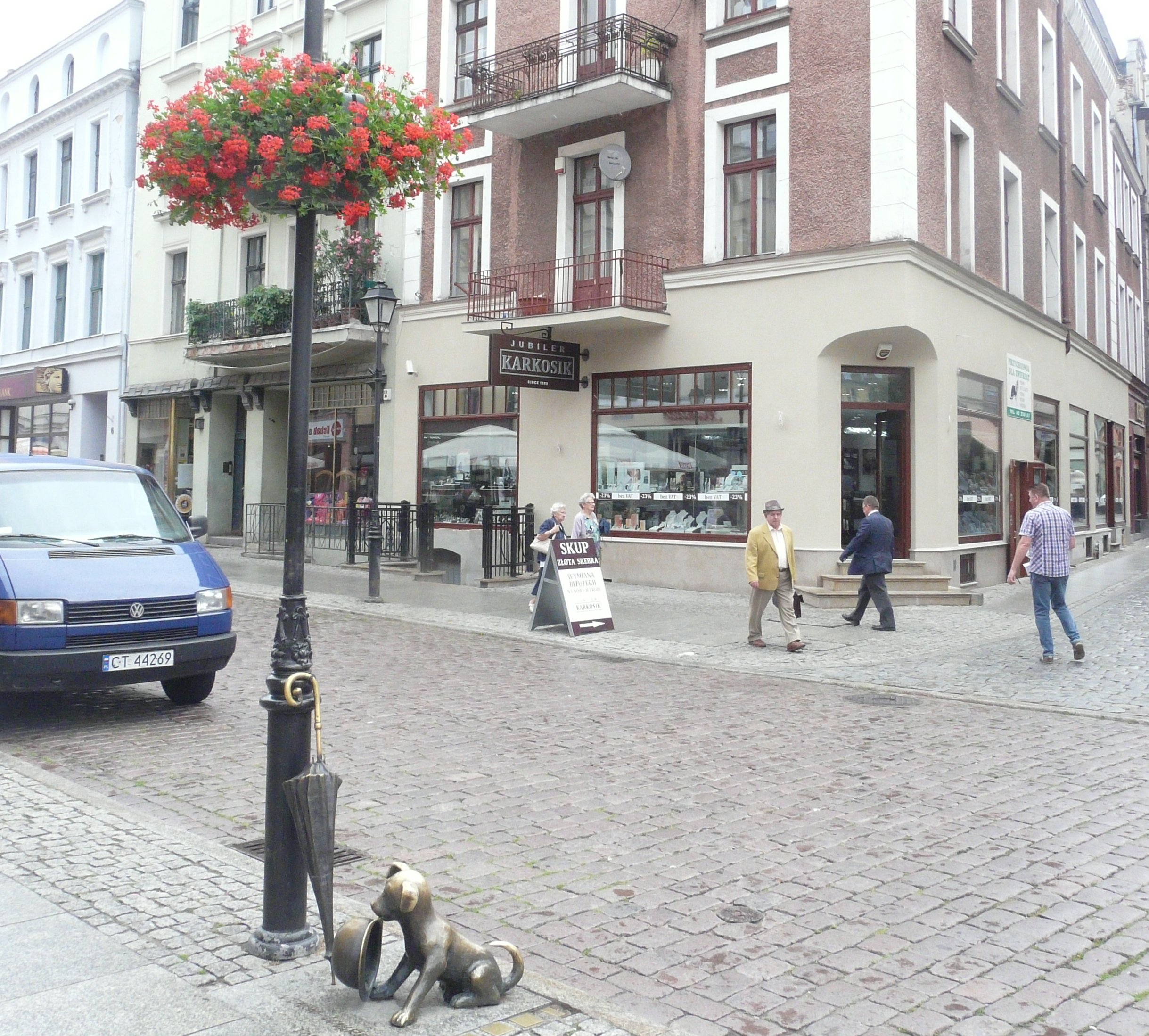 Monument of Filus at the Old Town Market in Toruń, the dog Filus of the Professor Filutek, afther the drawings of Zbigniew Lengren, sculpture created by Zbigniew Mikielewicz